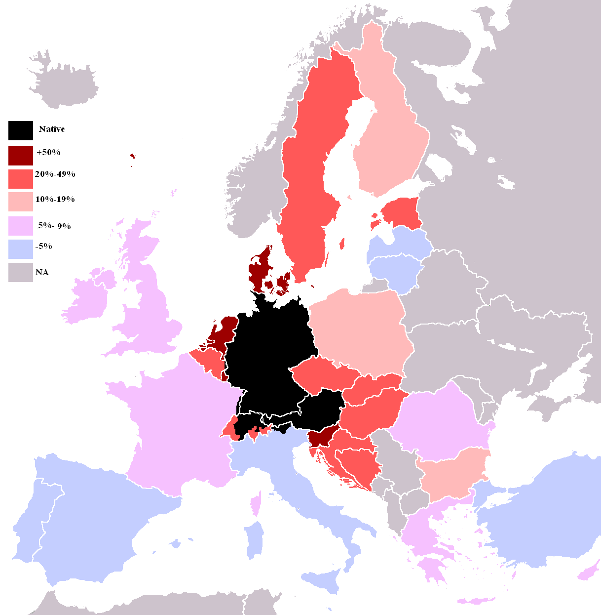 Knowledge of German language in EU with Croatia, Bosnia and Herzegovina, Switzerland and Turkey.